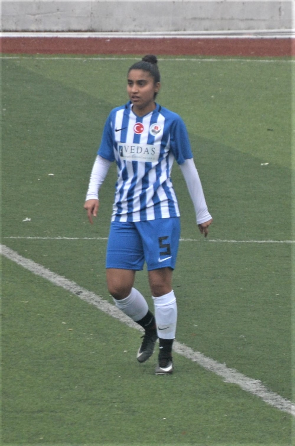 Rahime Atabay of Hakkarigücü Spor in the 2018-19 Turkish Women's First League.